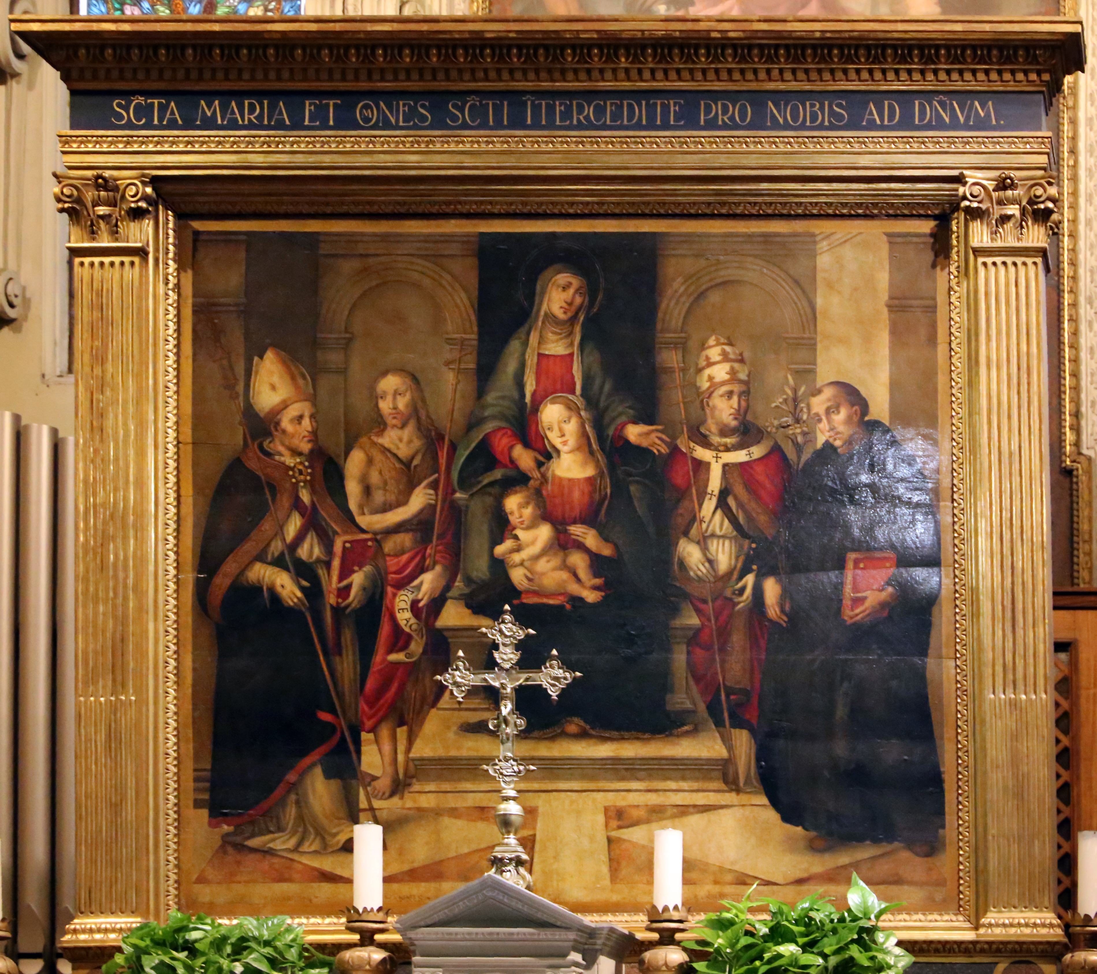 Santa Lucia dei Magnoli (Florence) - Interior